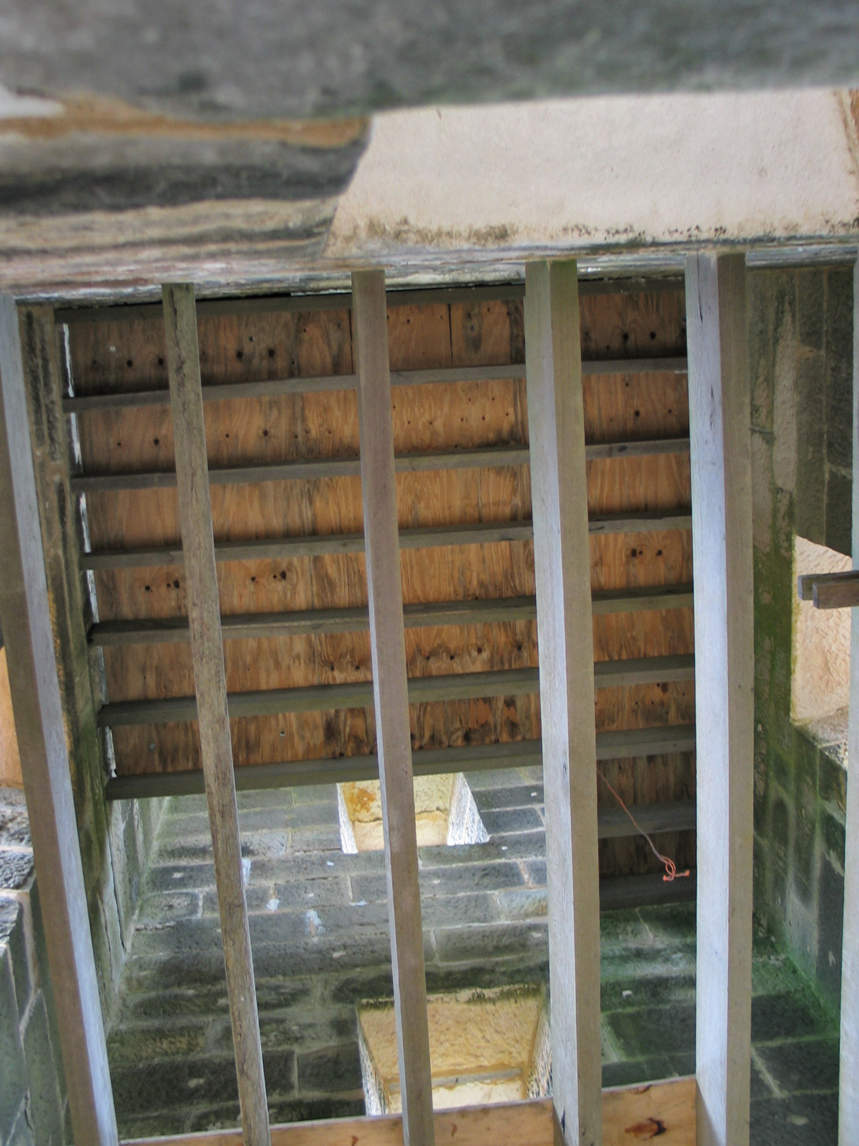 Interior of Ben Boyd's Tower, Ben Boyd National Park, NSW Australia.